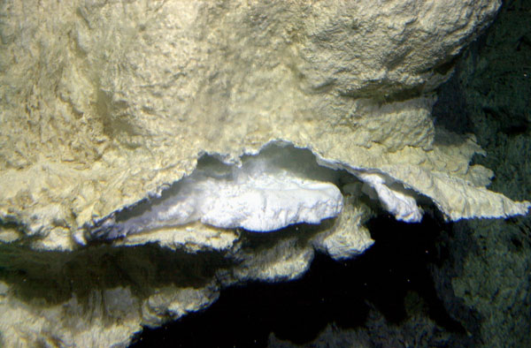 Collecting samples from a 6-foot-wide flange, or ledge, growing from the side of the 18-story carbonate chimney in the Lost City Field reveals an opening into the hollow white interior of the flange from which warm vent fluids escape in a shimmering curtain.